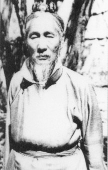 鲁康娃·泽旺饶登